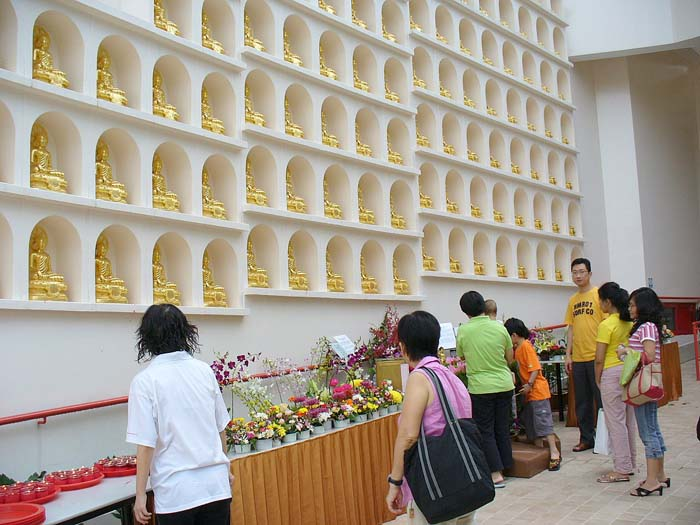 Vesak celebrations at Poh Ern Shih Temple, Singapore